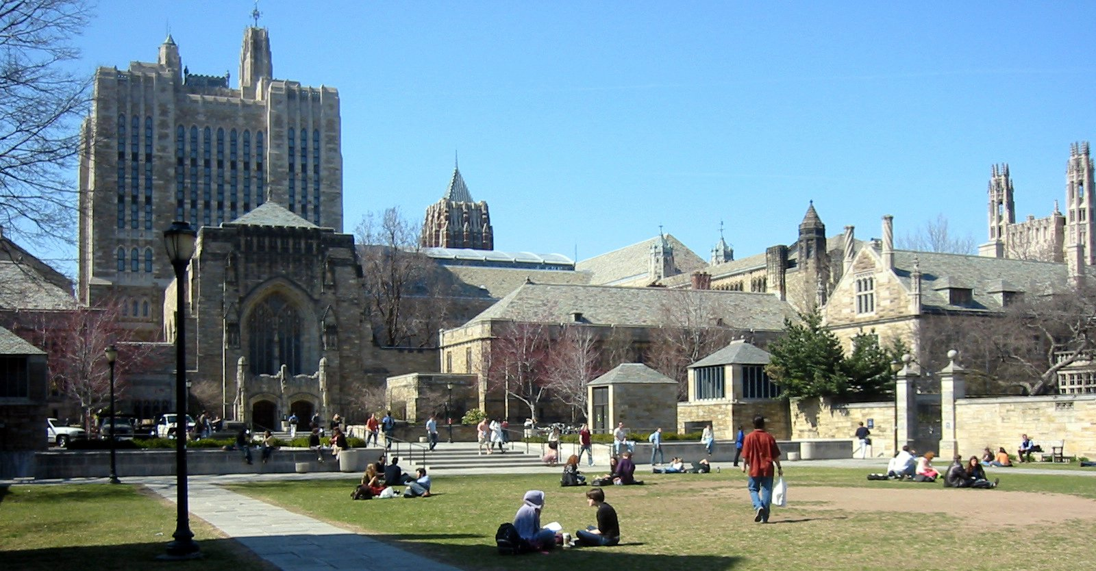 A warm spring day in front of Sterling Memorial Library, Yale University.